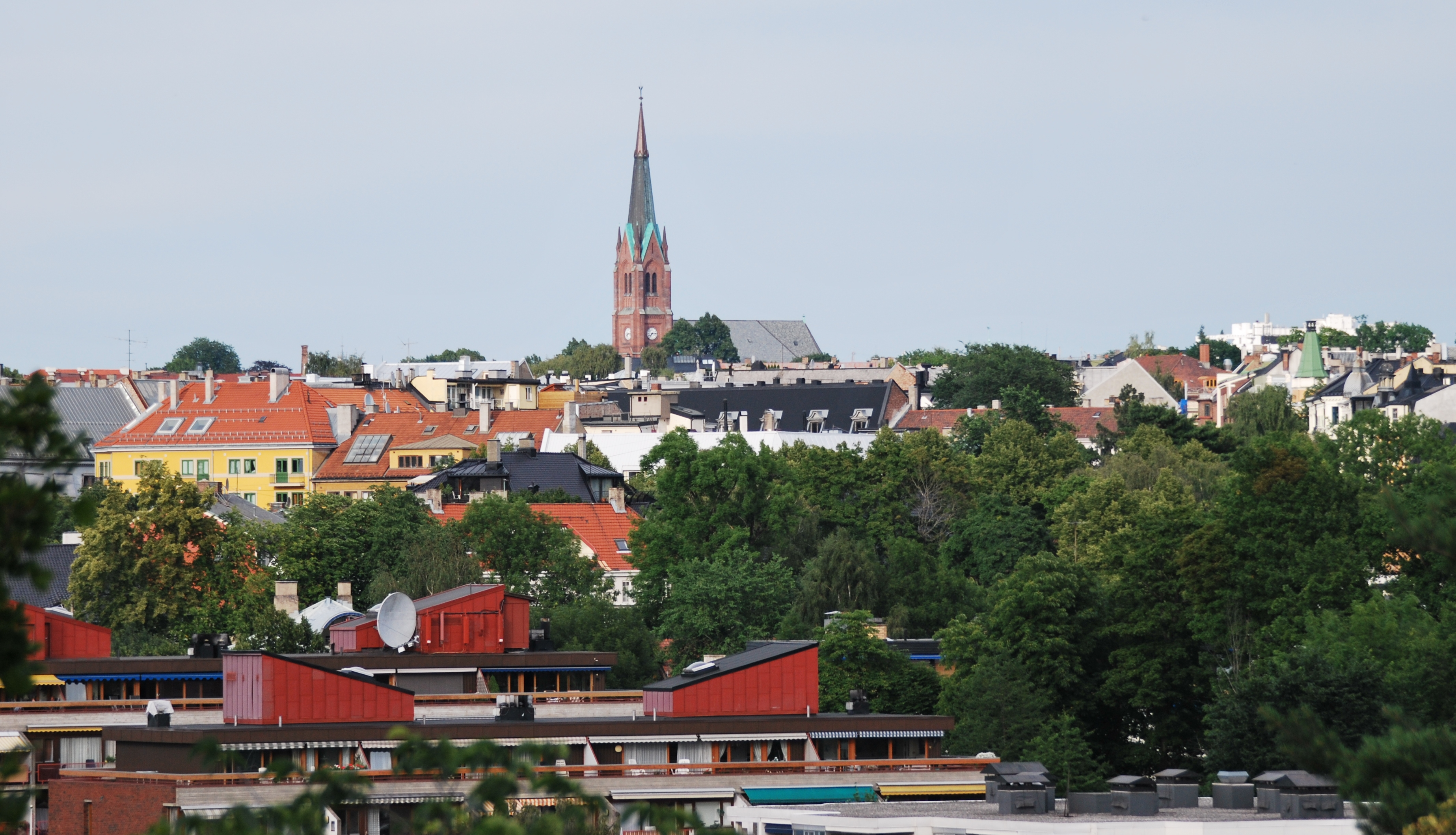 Oslo West End skyline seen from Dronningberget